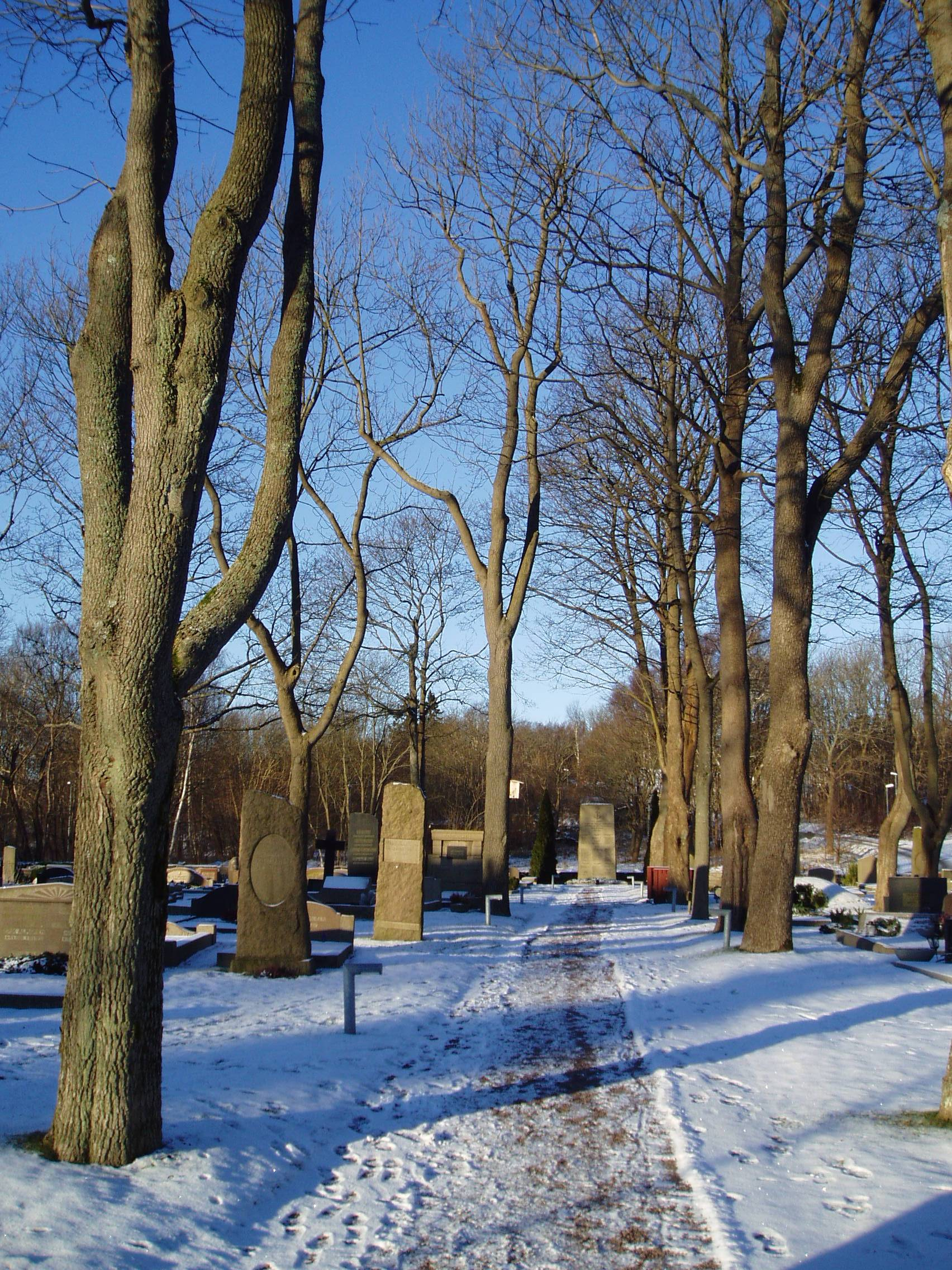 Cemetery at Nya Varvet, Gothenburg